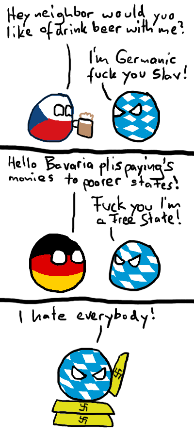 Bavaria Mulls an End to Solidarity. A Polandball comic commeting on Bavaria's plans to challenge payment transfers to poorer German states news link